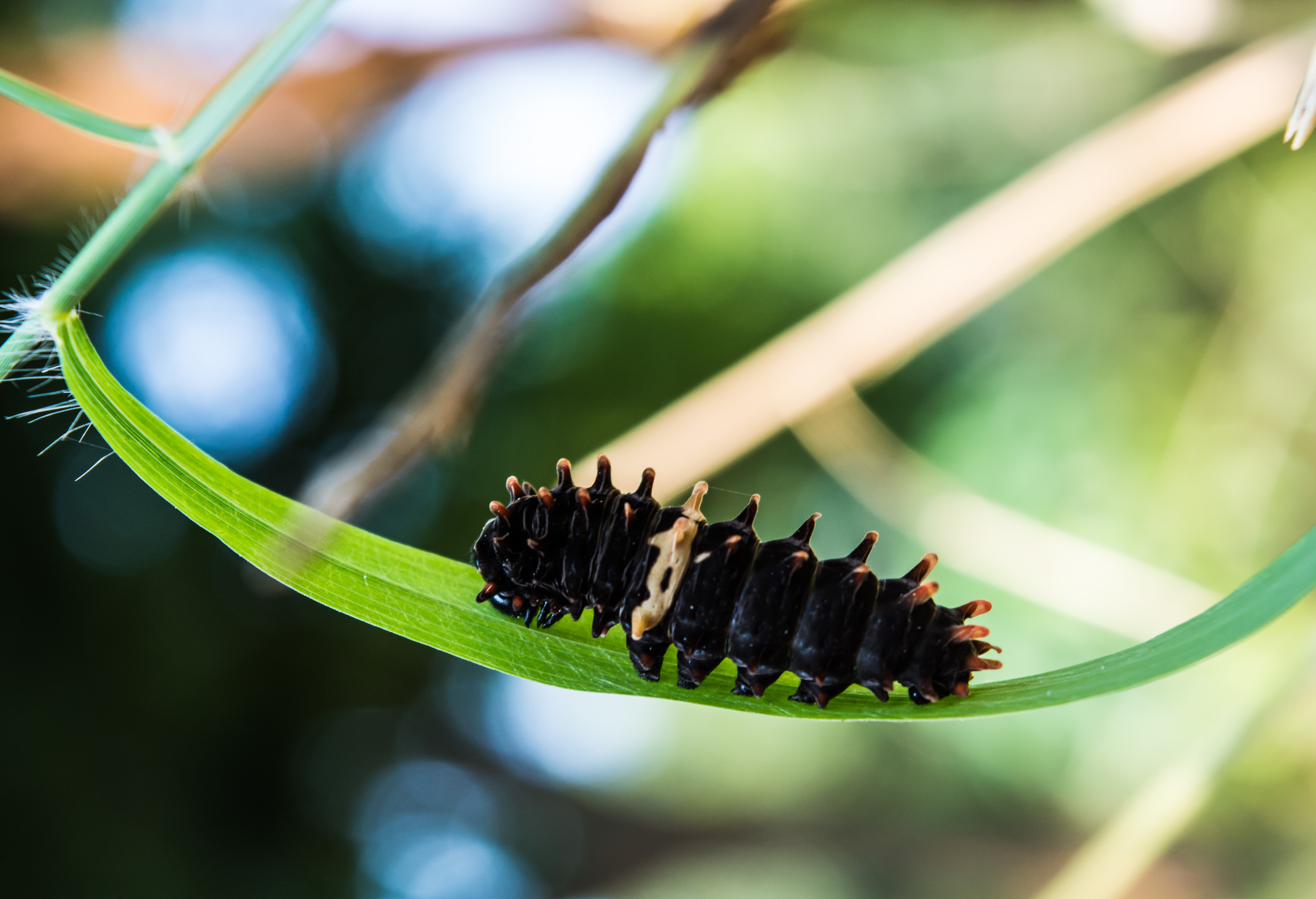 Pachiopta hector, a caterpillar moving on a leaf in Kambalakonda wildlife sanctuary.